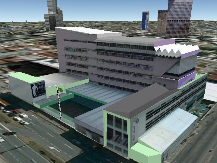 Bom Jesus Centro, headquarter of Grupo Bom Jesus. 3d model made on SketchUp by the uploader